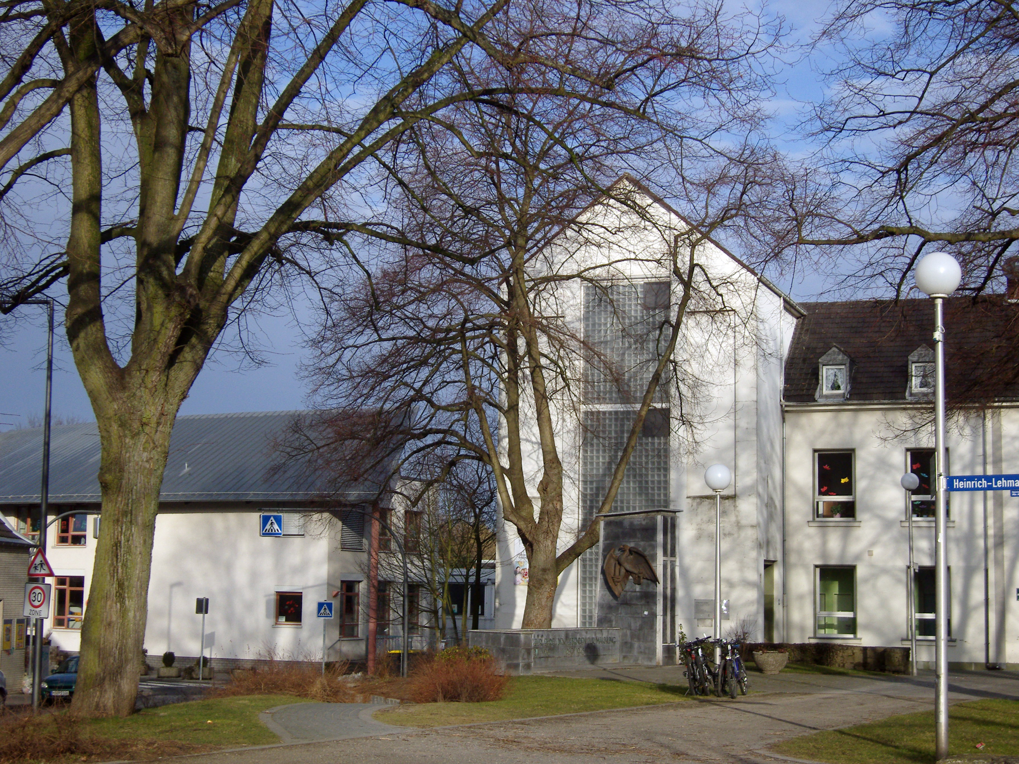 School in Aachen-Richterich, Grünenthaler Str. 2